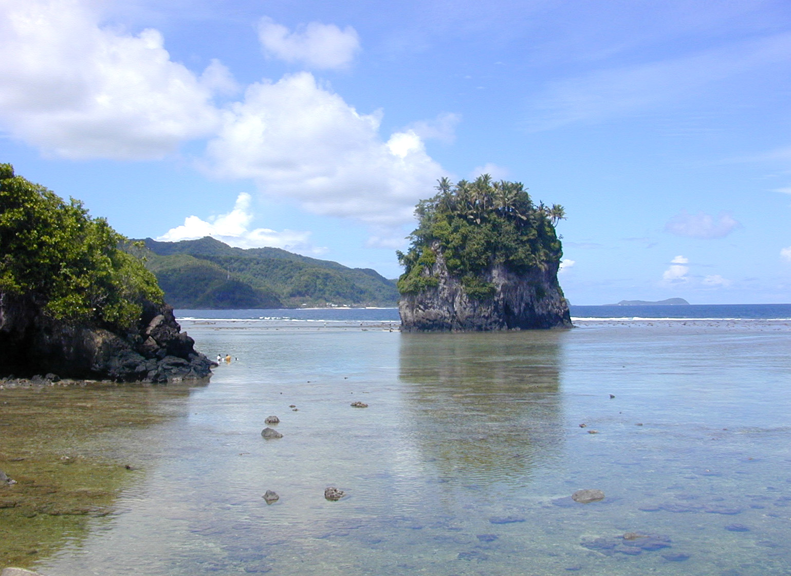 Fatu (distant; also called Tower and Flower Pot Rock) and Futi (left) rocks (islets) on the reef of Tutuila, American Samoa. Note distant Aunu‘u Island to the right of Fatu Rock